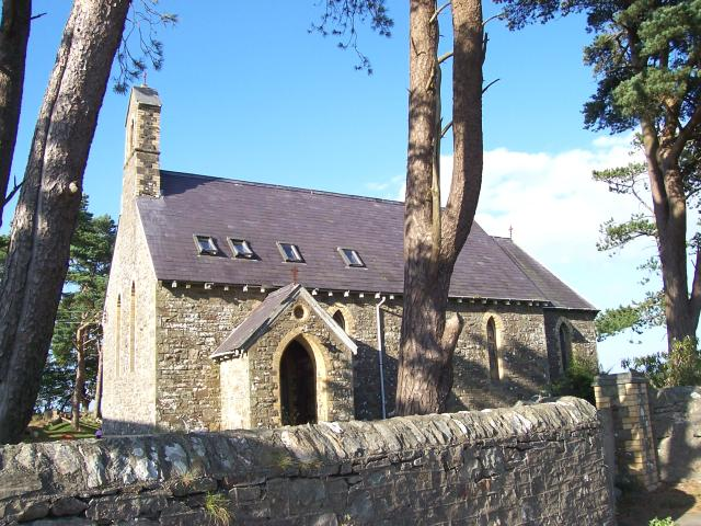 Church at Sarnau. Former Parish Church at Sarnau, now in private ownership.